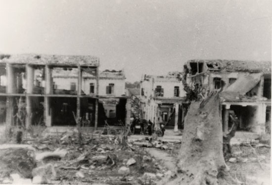 Powder Magazine Explosion in Flora, Macau.